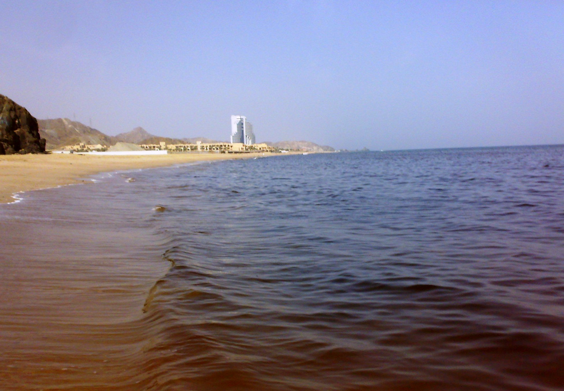 Image from the northern part of the Fujairah emirate, UAE - by the Indian Ocean